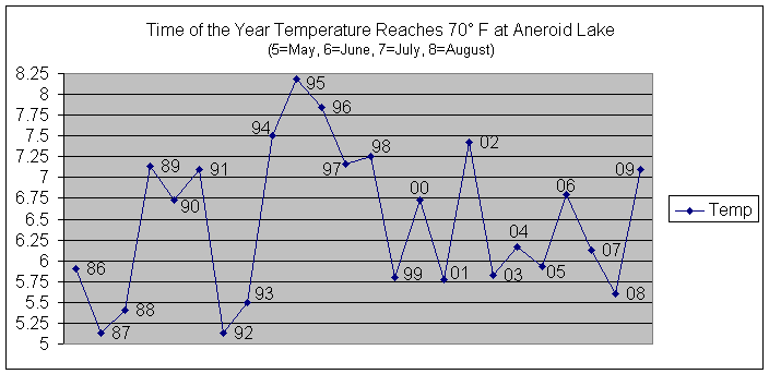 Time of the year when temperature reaches 70 °F (21 °C) at Aneroid Lake.